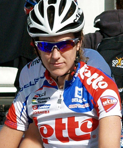 Australian cyclist Sara Carrigan (Lotto-Belisol Ladies Team) at the start of the 2008 Geelong World Cup, Geelong, Australia.